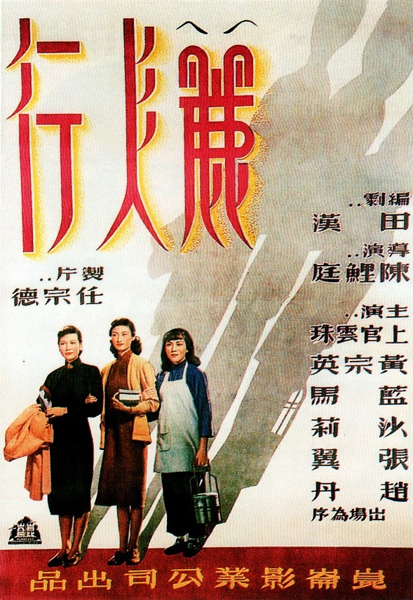 Original poster of 1949 film Three Women, directed by Chen Liting